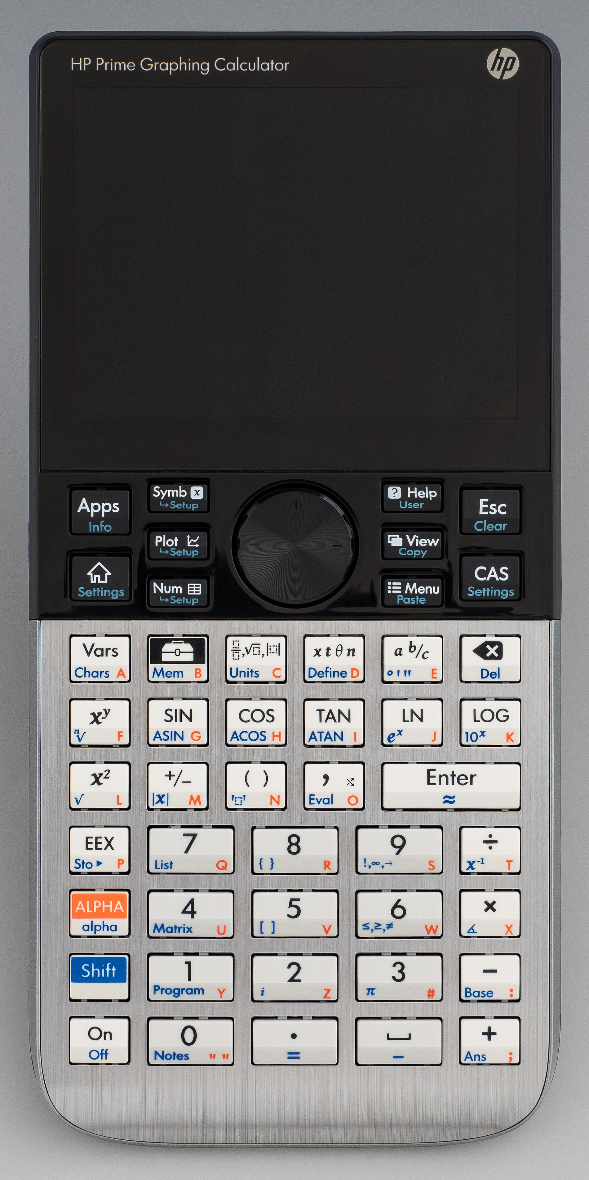 Prime graphing calculator by Hewlett Packard, model G8X92AA, revision C. This revision has darker blue and orange silkscreen, as compared with earlier models that used sky blue and light orange.